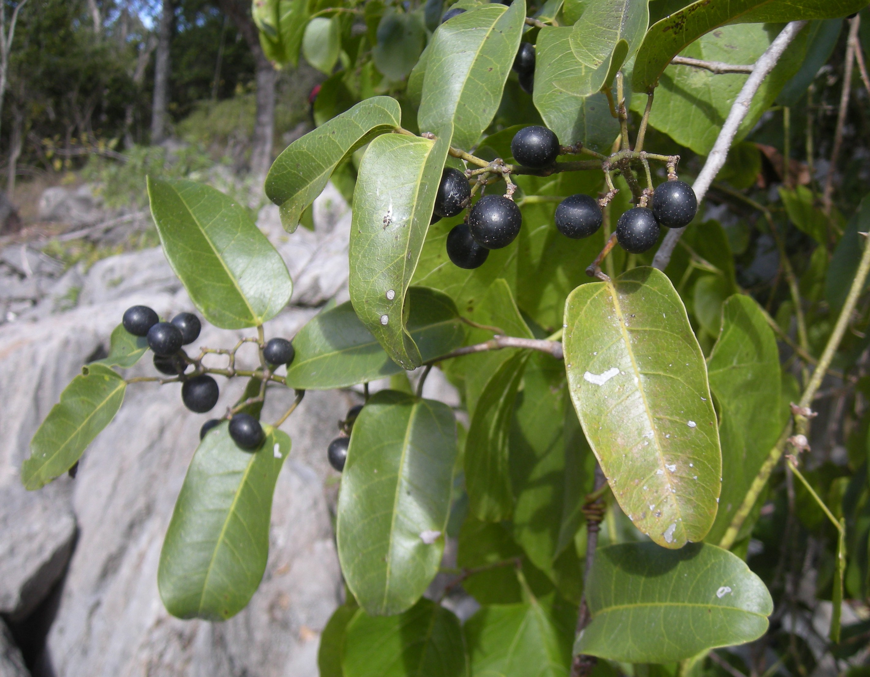 Cissus oblonga foliage and fruit